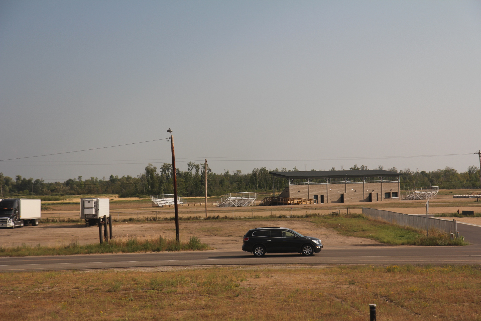 The grandstands at the Wadena County, Minnesota fairgrounds from the Empire Builder.